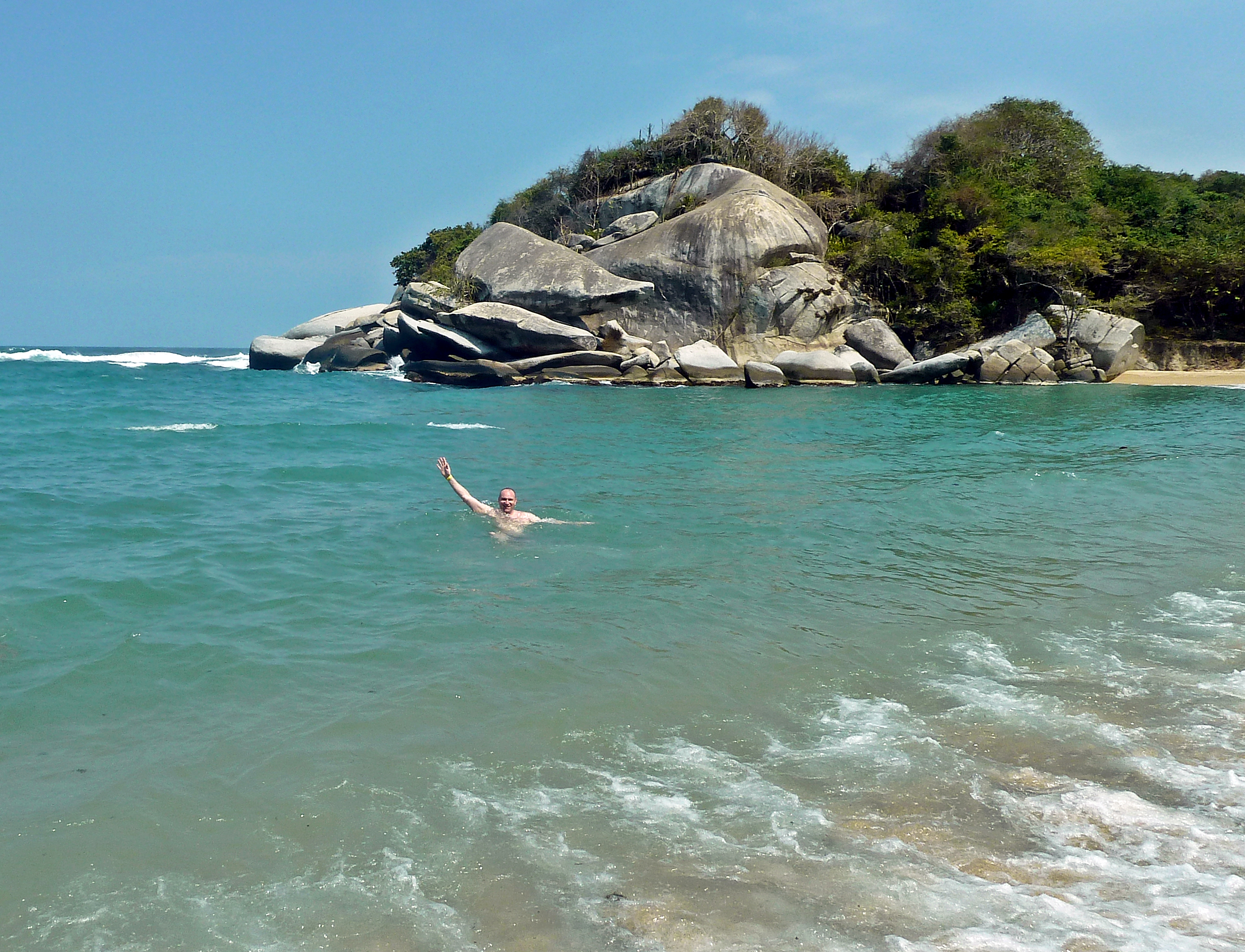 Cabo San Juan in Tayrona National Park in northern Colombia